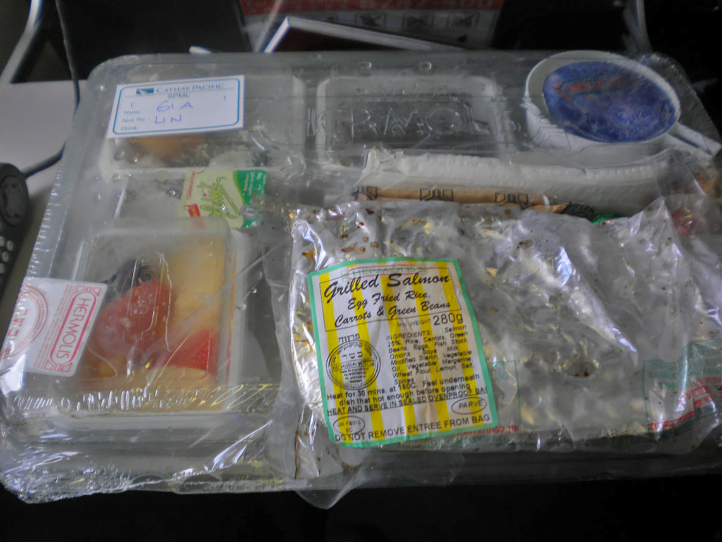 A serving of kosher airline meal onboard Cathay Pacific Flight 391 from Beijing to Hong Kong (on a Boeing 747). According to the tag, grilled salmon with egg fried rice, accompanied by carrots and green beans, is contained.